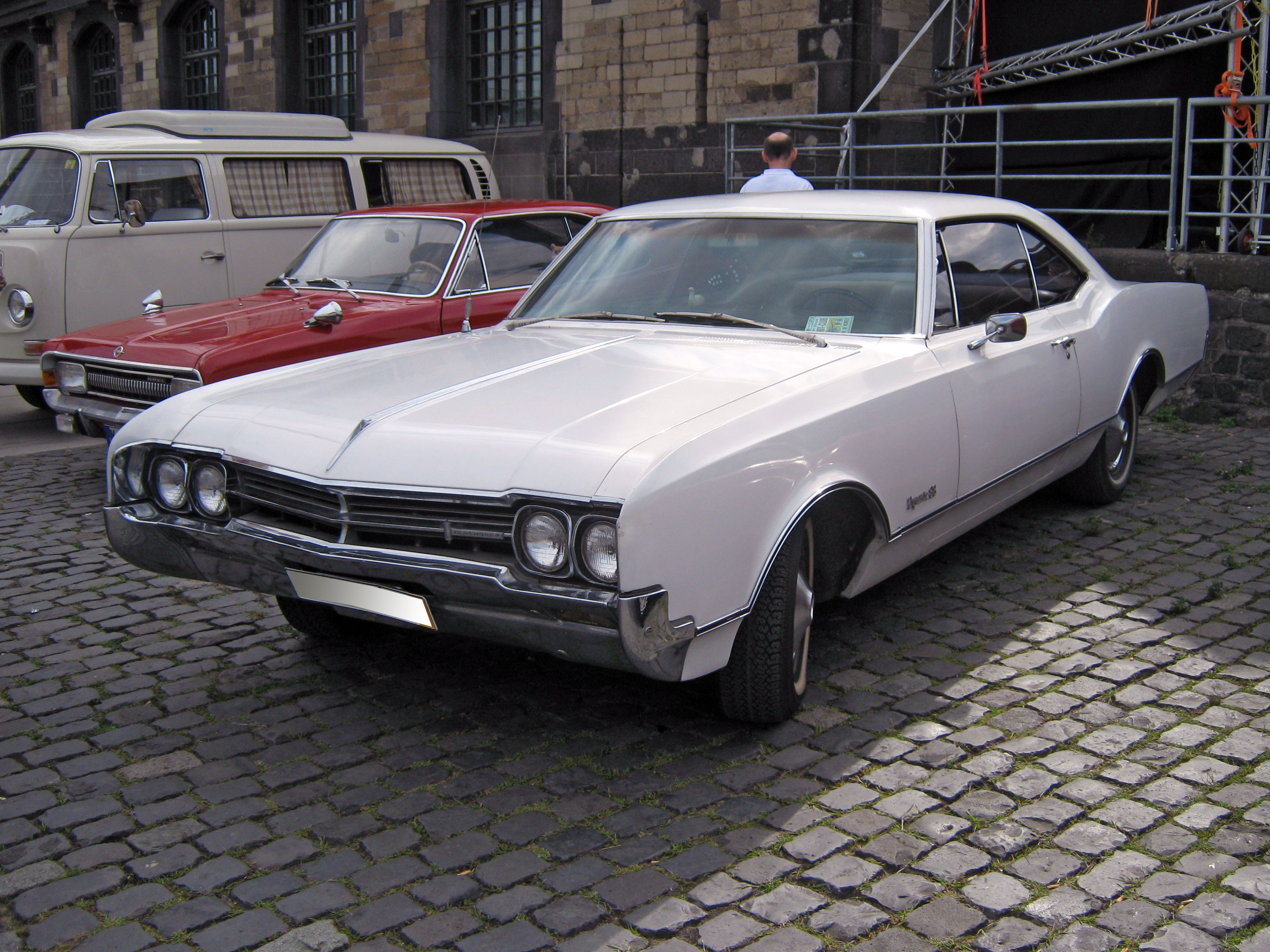 1966 Oldsmobile Dynamic 88 2T Coupé front view